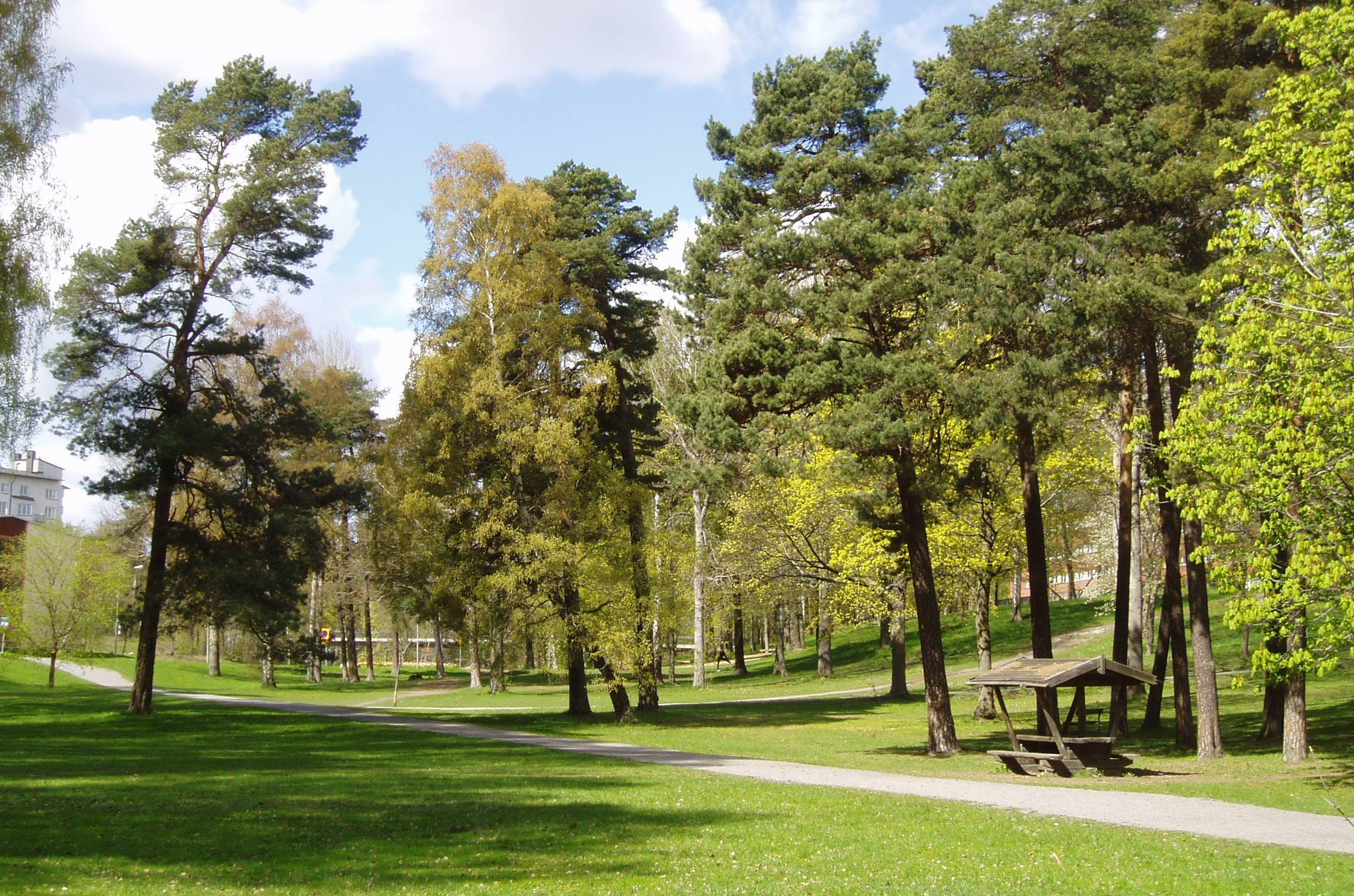 Maskinparken, park in nothern Stockholm, Sweden